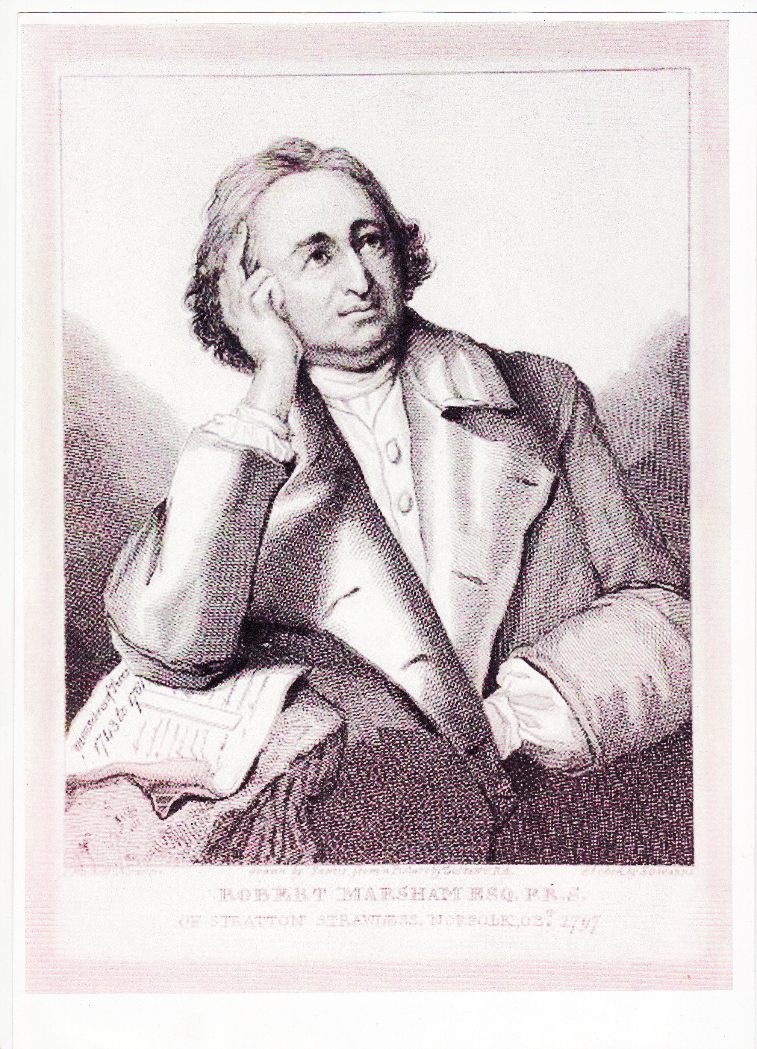 Scan of print depicting Robert Marsham (1708-1797) belonging to uploader